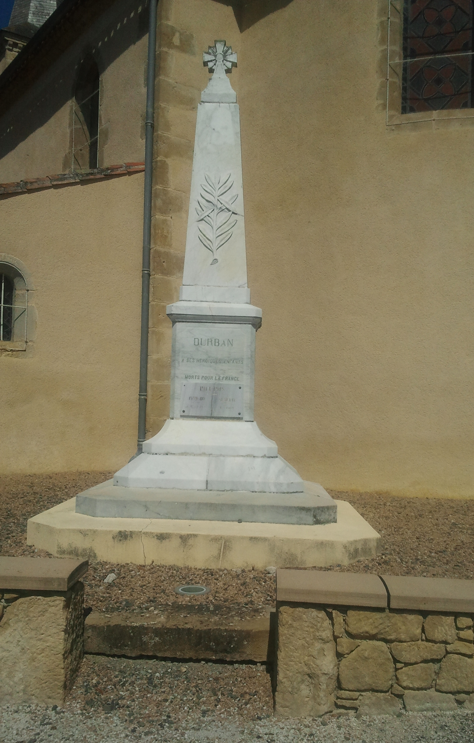 War memorial in Durban (Gers)